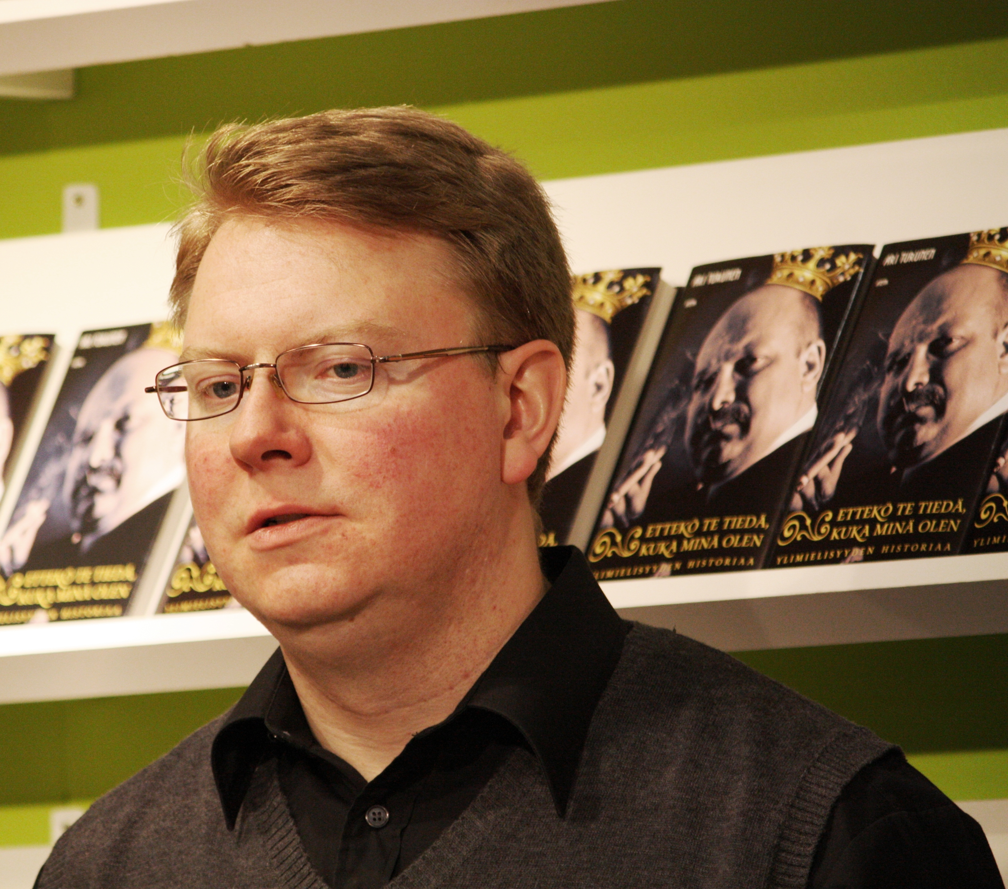 Finnish non-fiction writer Mikko Porvali at the Helsinki Book Fair 2010.